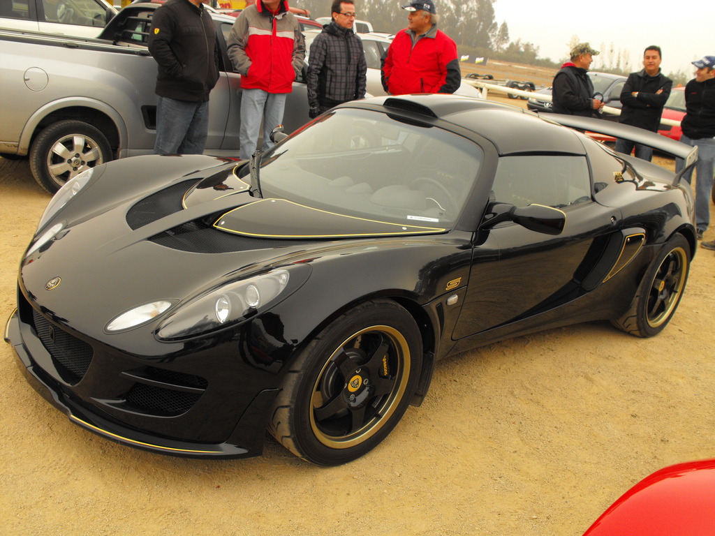 Black Lotus Exige S Type 72 (Special Edition). CASV 2° fecha.